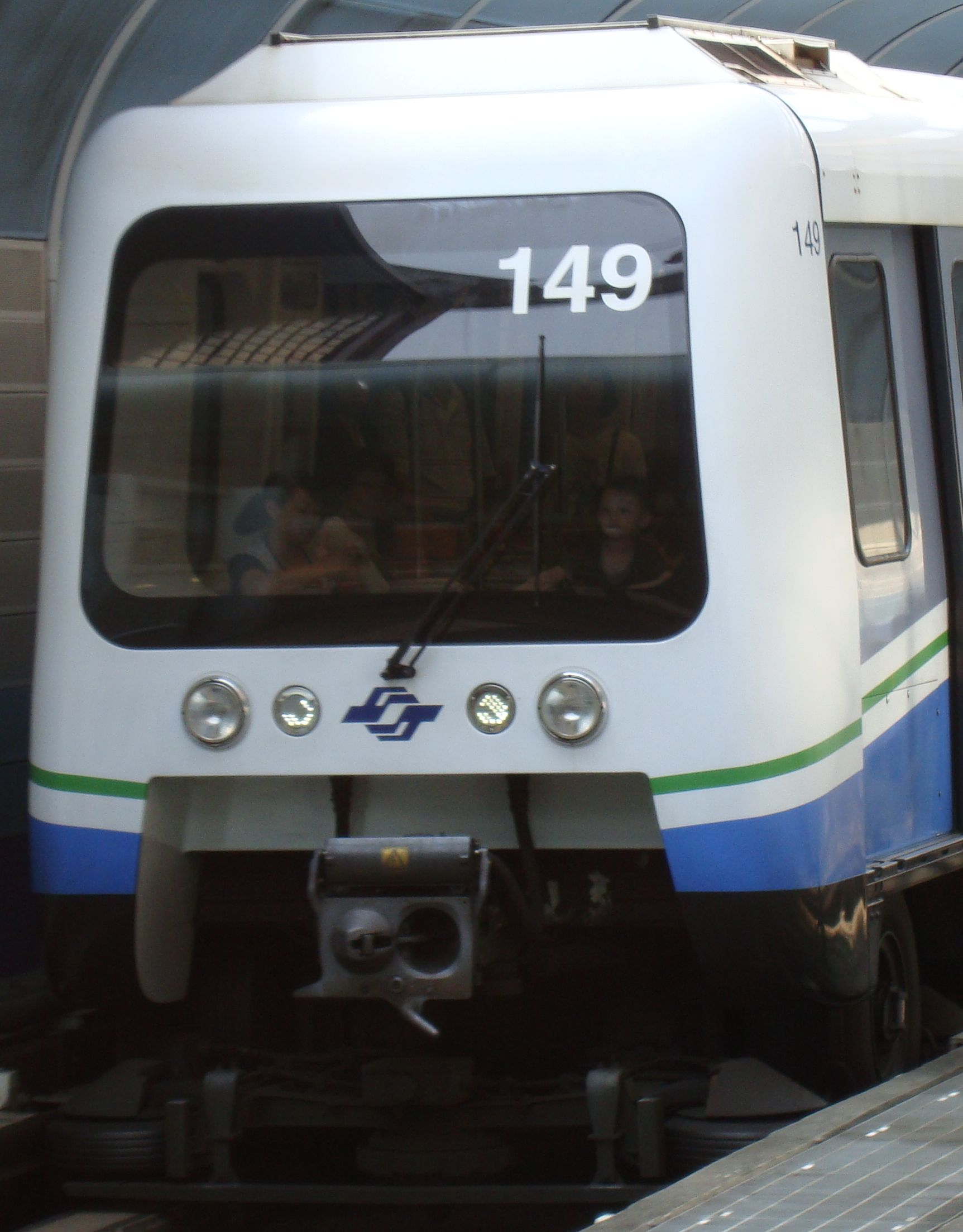 Taipei MRT CITYFLO650 tip close